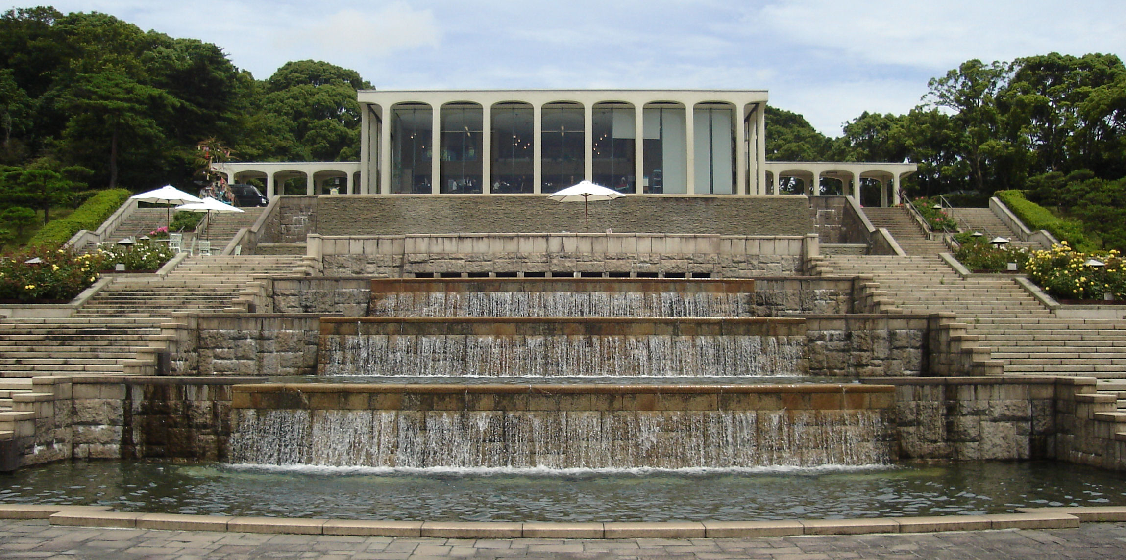 Cascade & Resthouse in Suma Rikyu, Kobe Japan